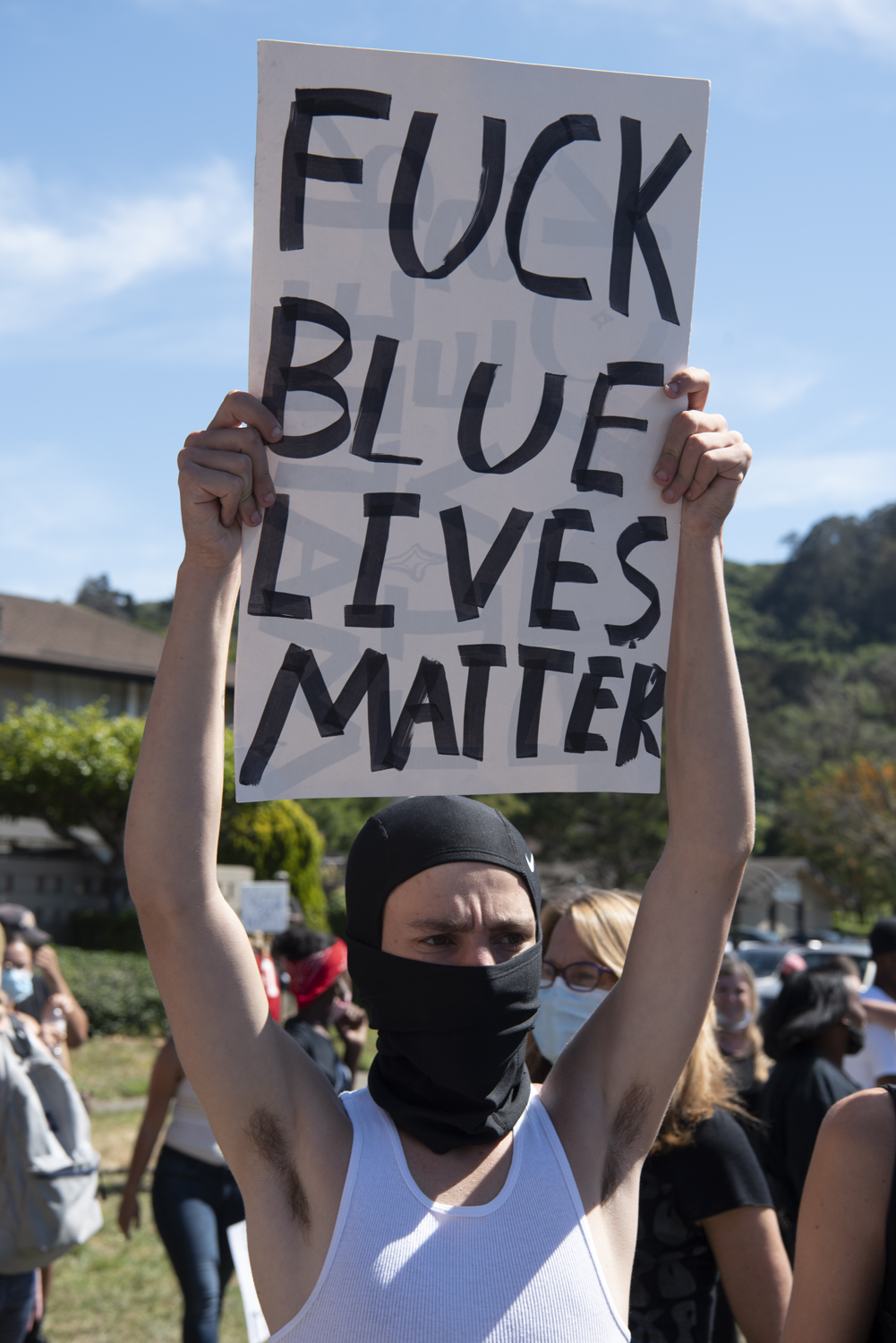 Marin City Black Lives Matter-George Floyd Protest "Its been too long that Marin county has had its knee on Marin City's neck" Marin County, California June 02, 2020 BlackLivesMatter GeorgeFloyd MarinCityProtest PoliceBrutality OurVoiceOurMovement